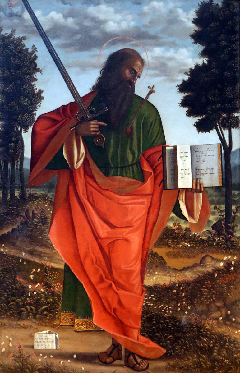 St. Paul stigmatized (1520) by Vittore Carpaccio.